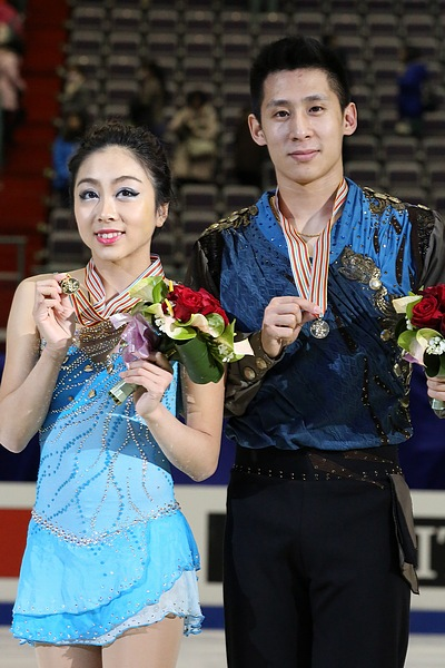 Sui Wenjing and Han Cong at the 2016 Four Continents Figure Skating Championships.